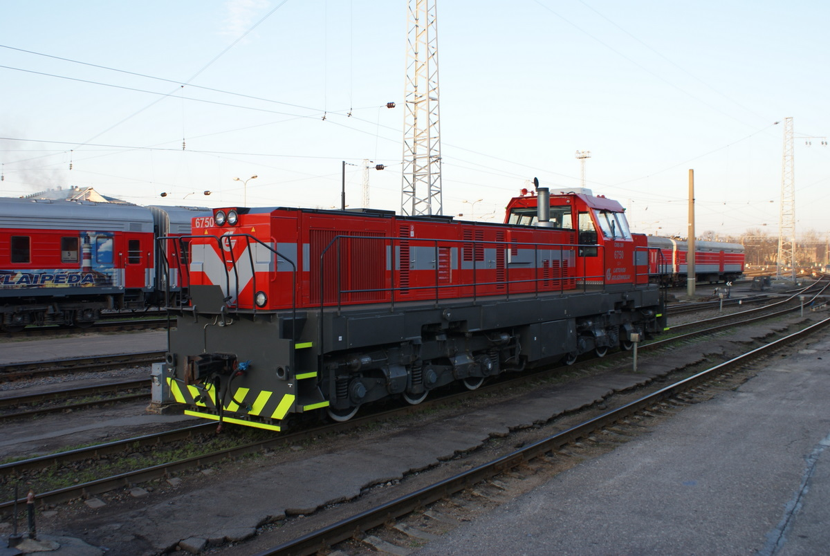 Diesel shunter ChME-3ME 6750 at Vilnius passenger station, Lithuania